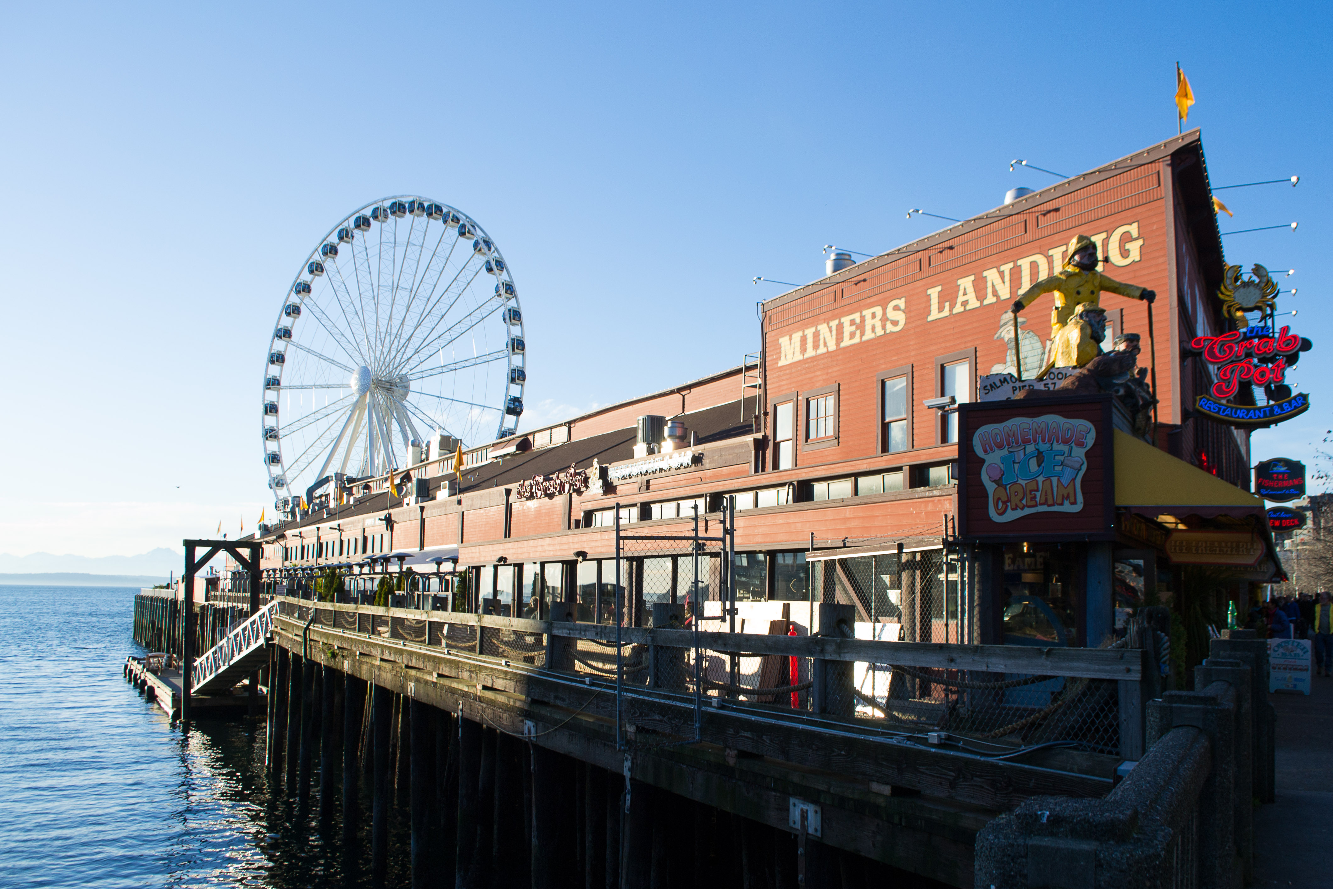 Pier 57 and beyond